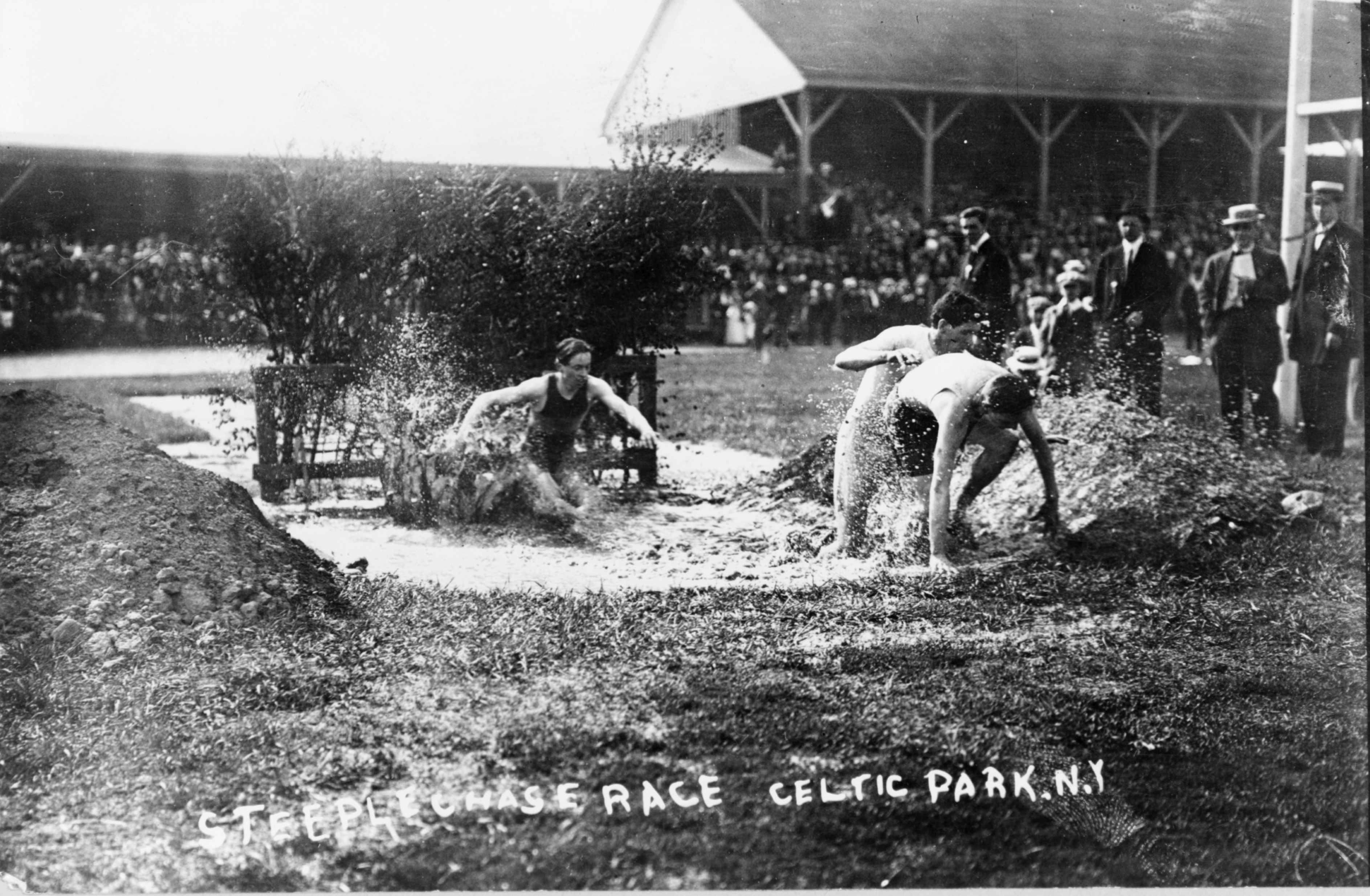 Steeplechase race, Celtic Park, N.Y. Track race through water.